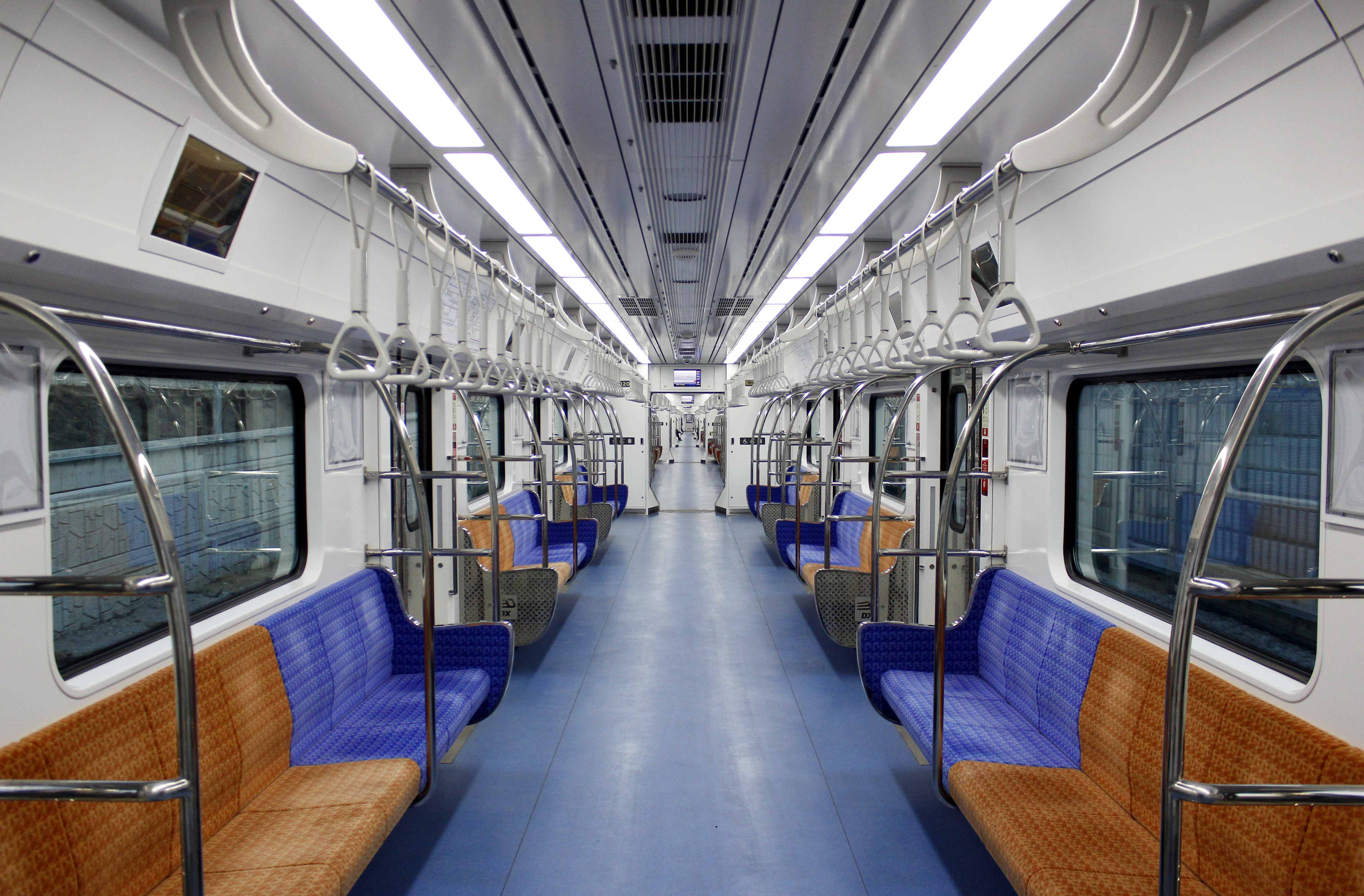 Shinbundang Line Class D000 EMU Interior